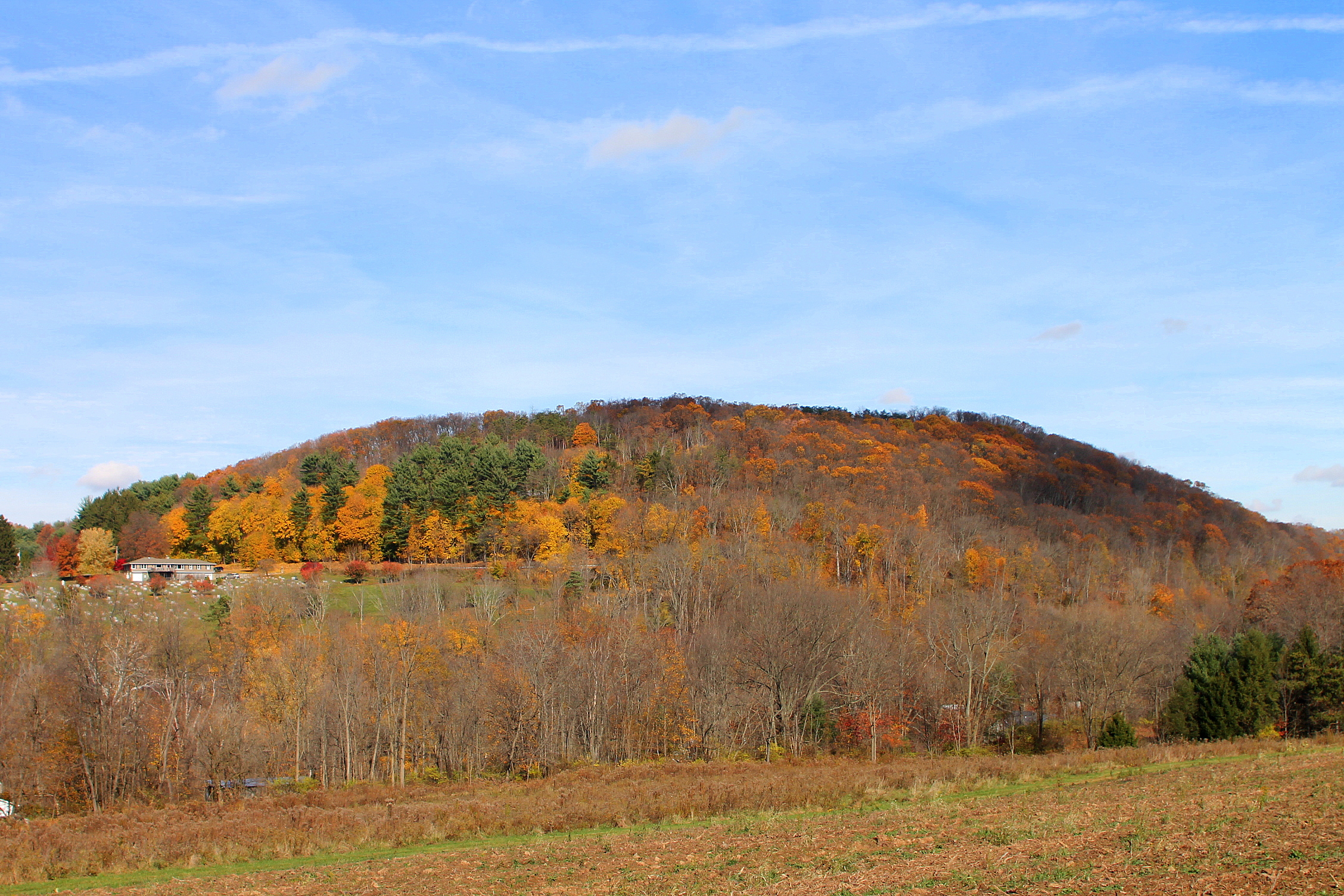 Hill in Catawissa Township, Columbia County, Pennsylvania near Catawissa.